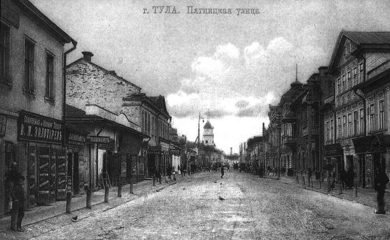 Old view of Tula